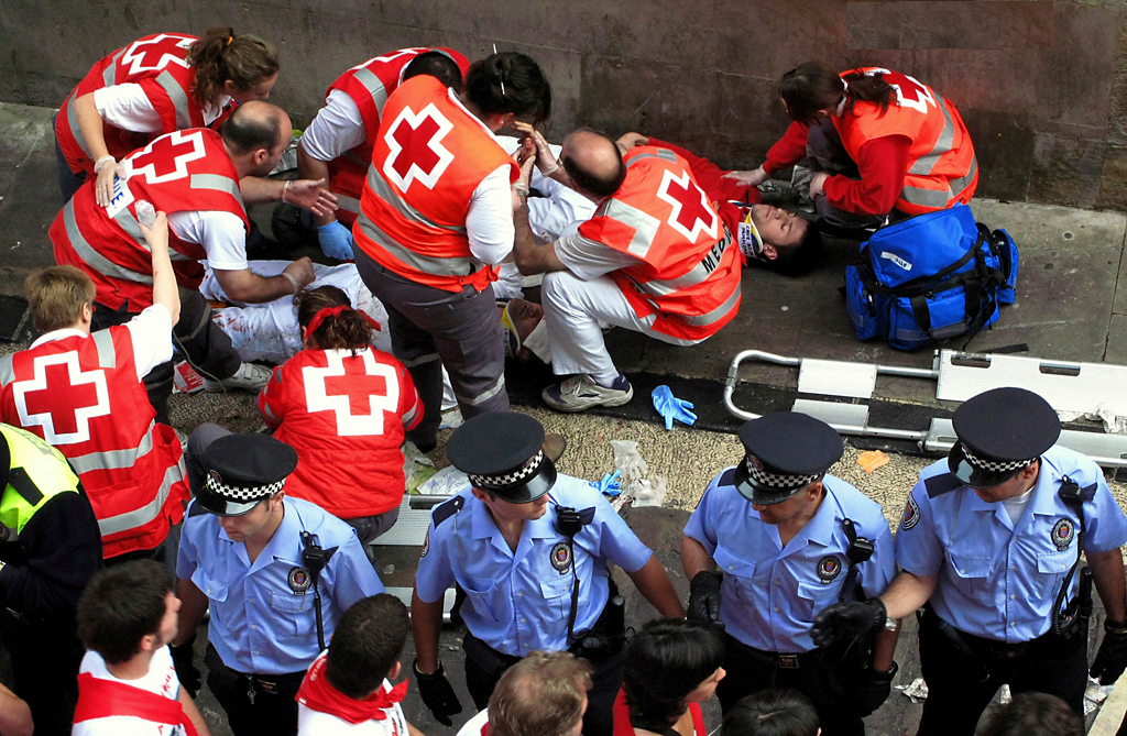 Sanfermines Vaquillas in Pamplona, Spain.